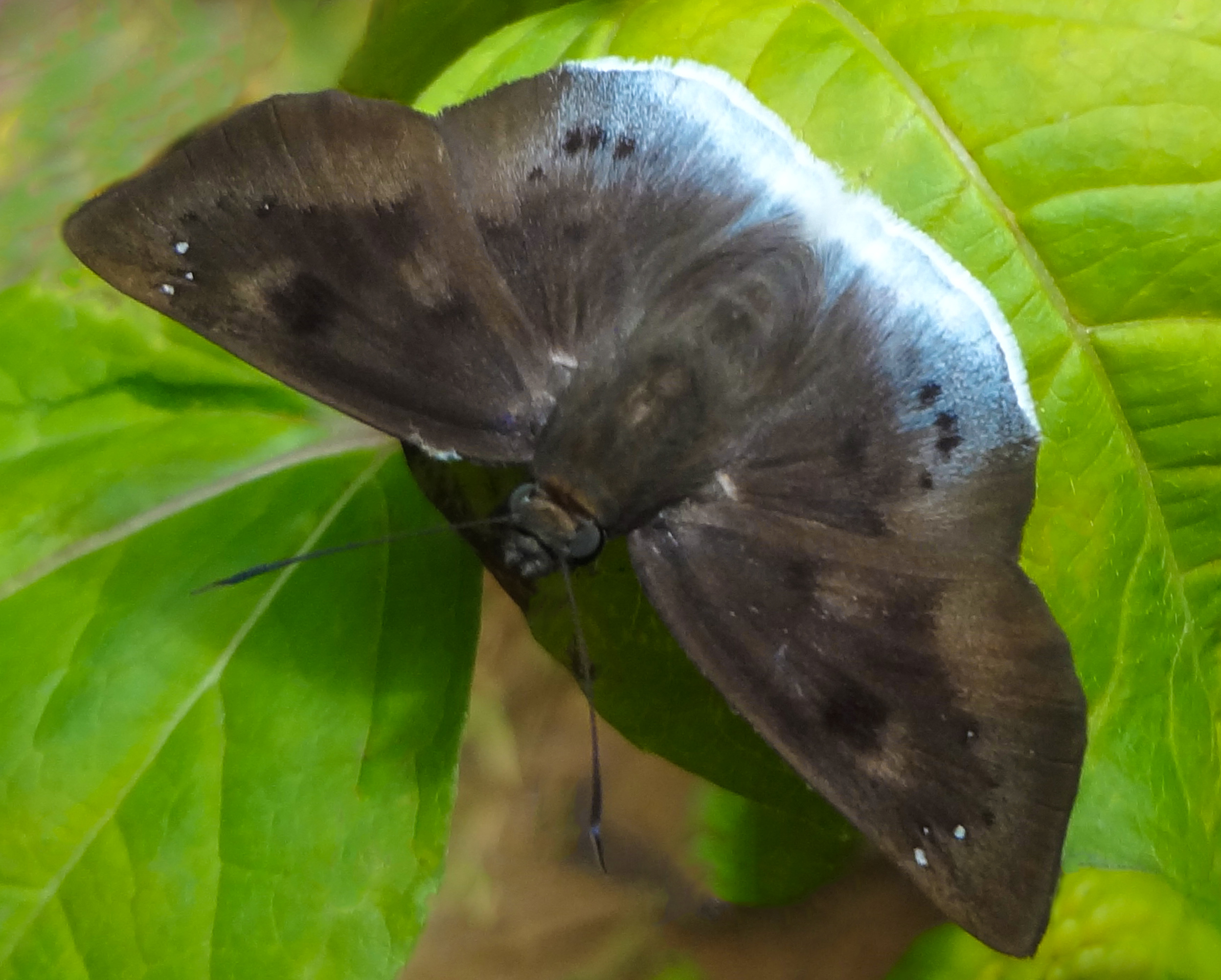 Suffused snow flat